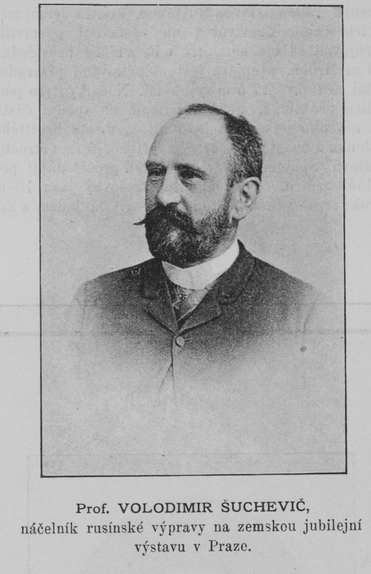 Portrait of Professor Volodimir Osipovich Shukhevich (Володимир Осипович Шухевич, 1849 - 1915), Ukrainian ethnographist, leader of Ruthenian (i.e., Ukrainian) delegation on Anniversary Exhibition in Prague 1891.